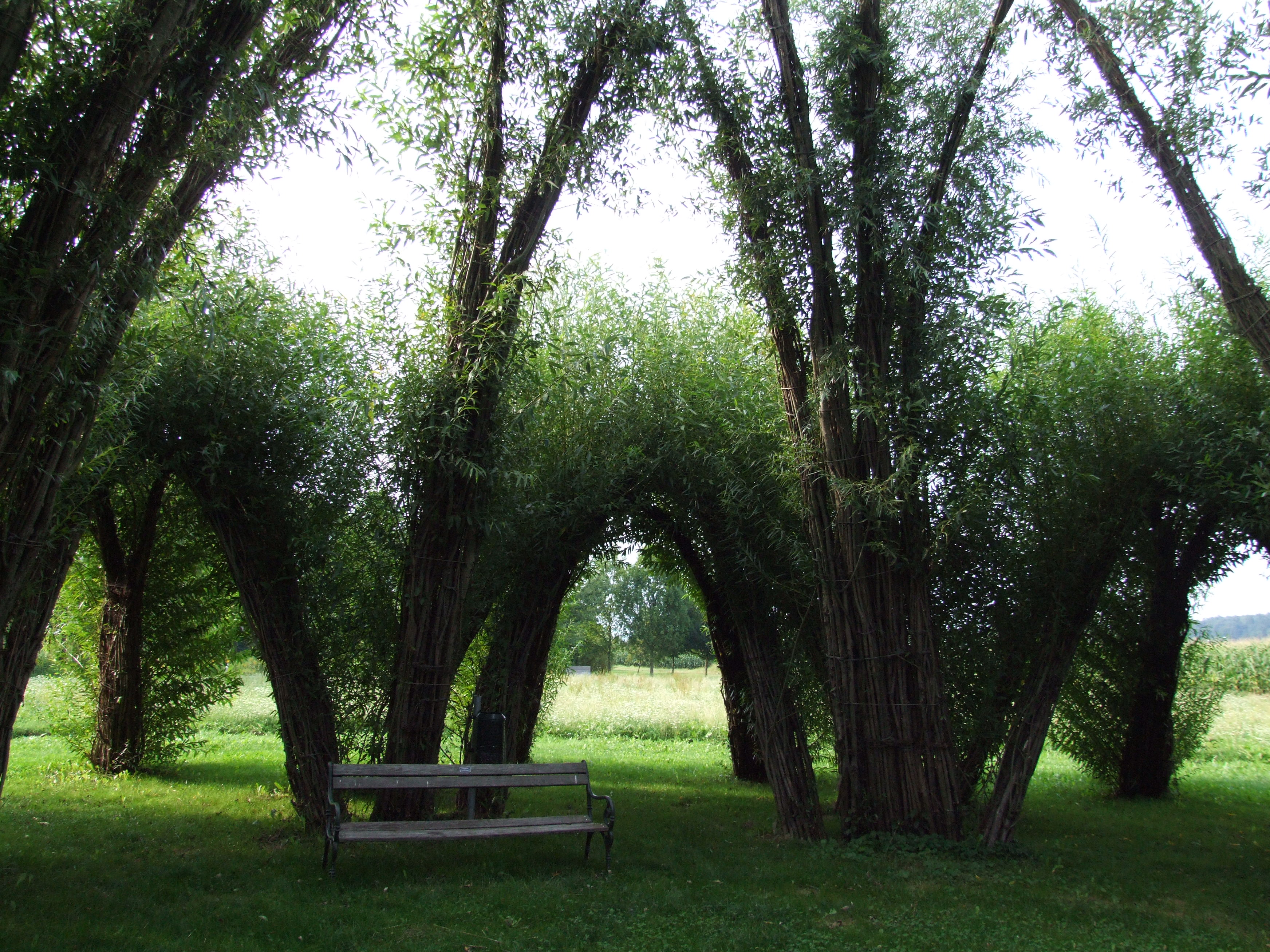 wickers at Thermenpark (Bad Blumau)